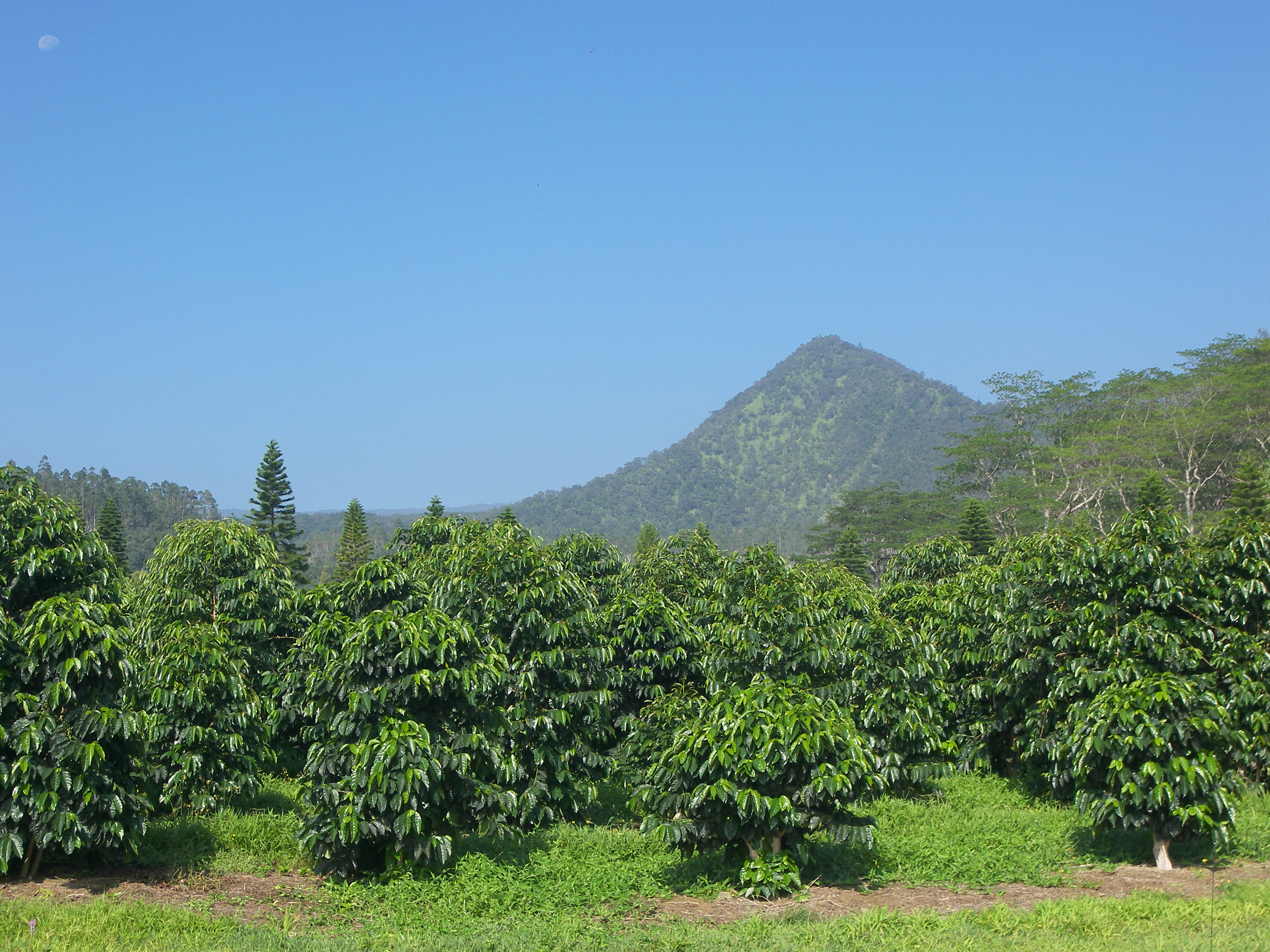 One of HEI’s coffee farms sits in front of one of Hawaii’s majestic mountains. (Photo credit: Hawaii Exports International)